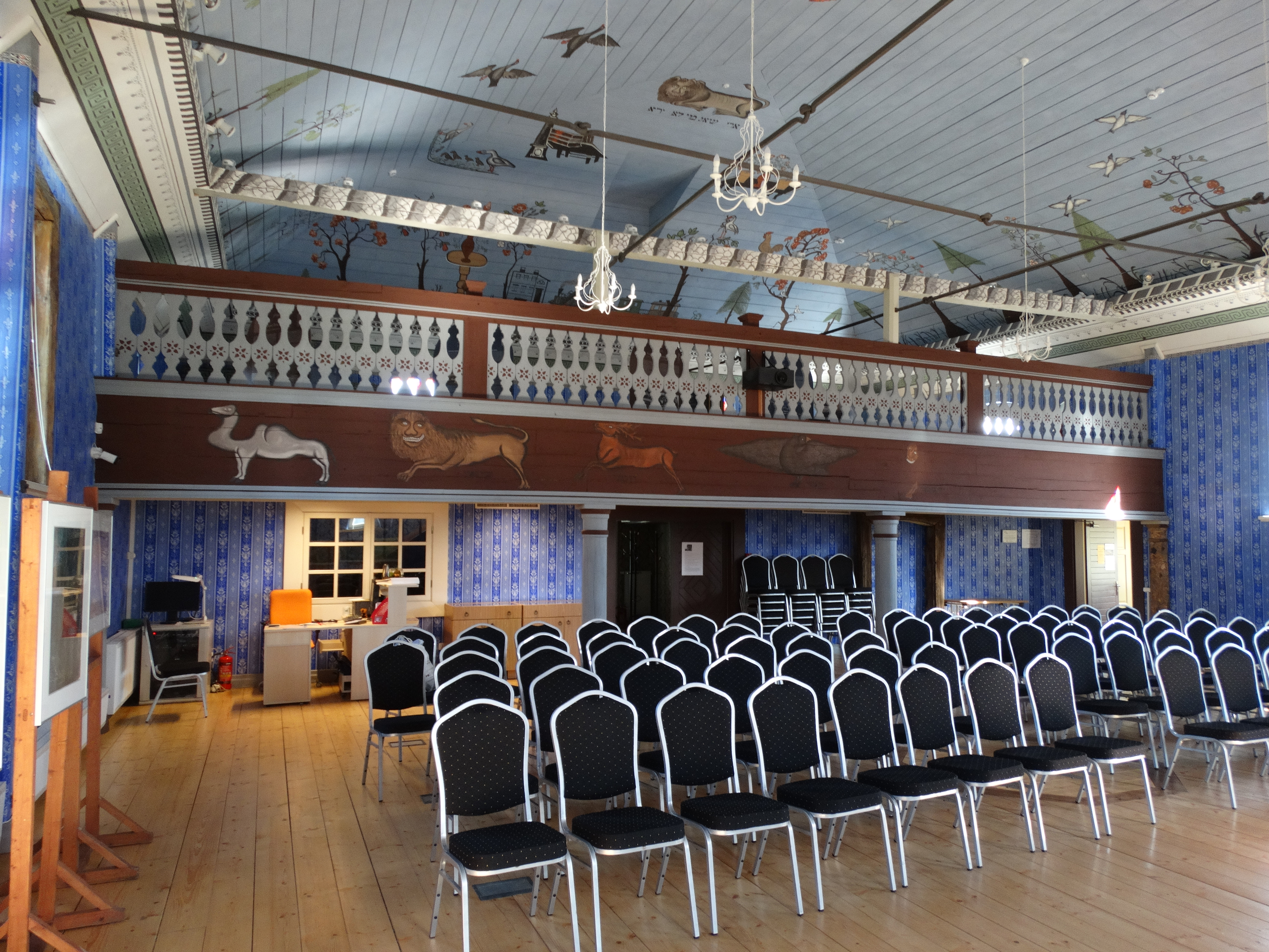 Synagogue, interior, Pakruojis, Lithuania